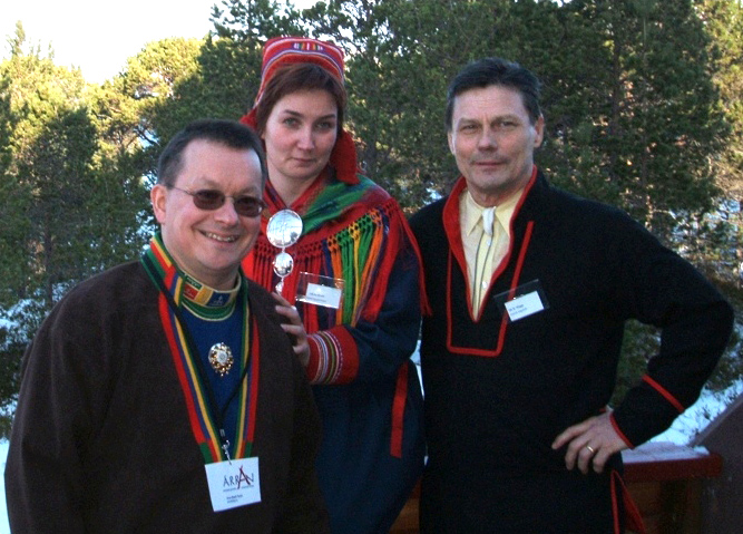 From left to right: Sven-Roald Nystø, Aili Keskitalo and Ole Henrik Magga, the second, third and first president of the Norwegian Sámi Parliament. Picture by Trond Trosterud.